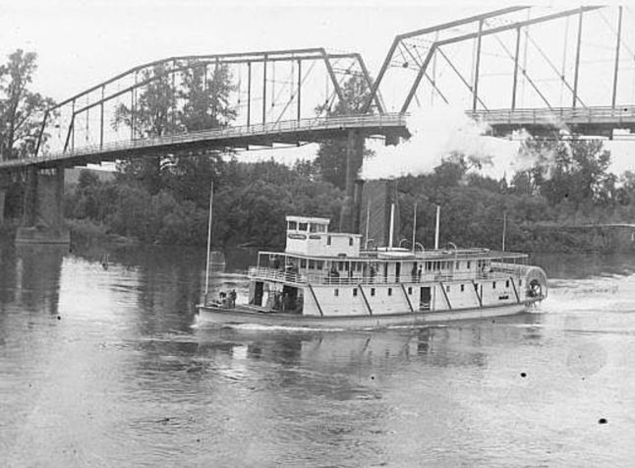 Sternwheeler Pomona passing under the Steel Bridge across the Willamette River at Salem Oregon, some time between 1898 and 1918.